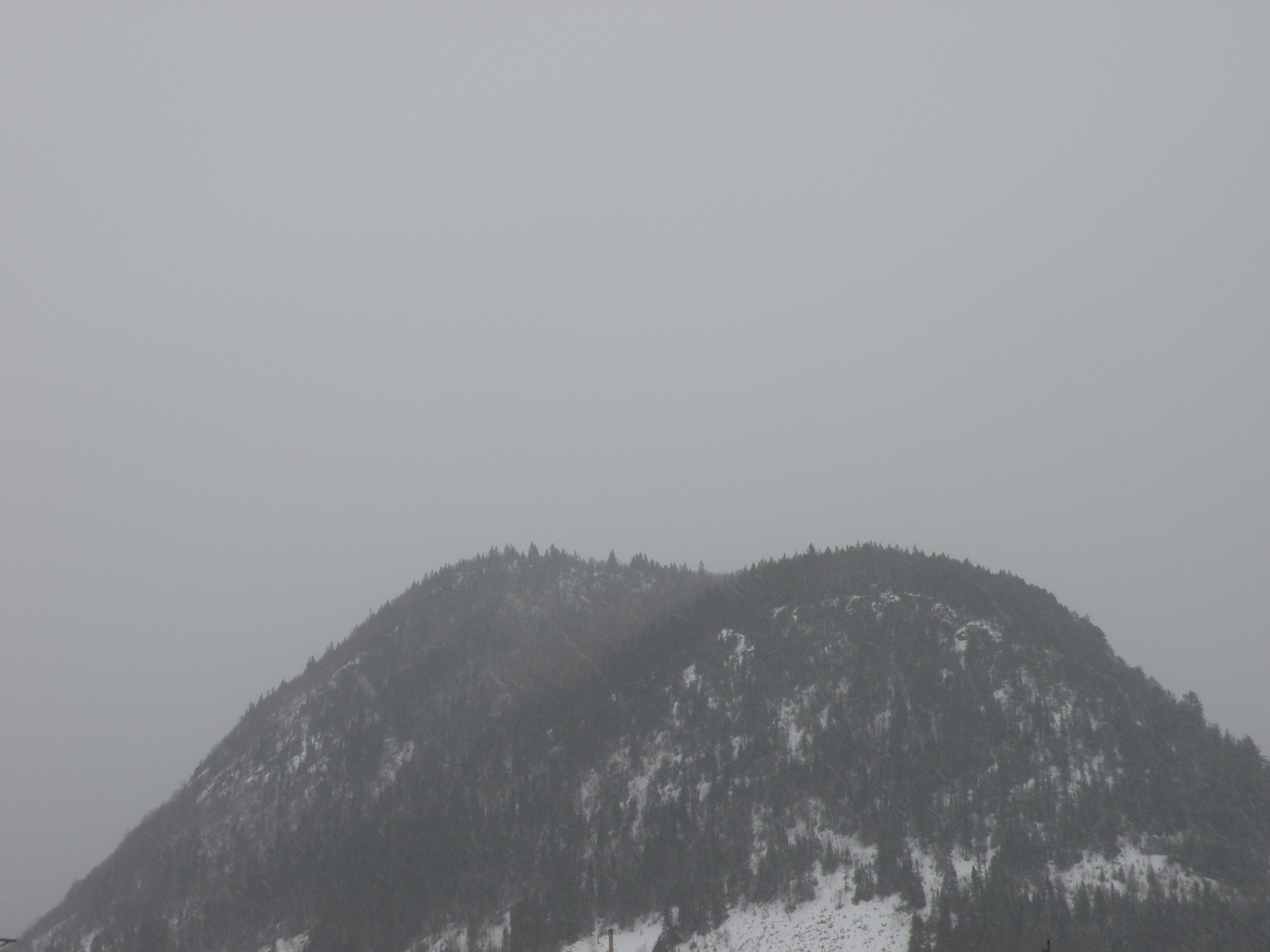 Mount Sugarloaf, New Brunswick, during winter.